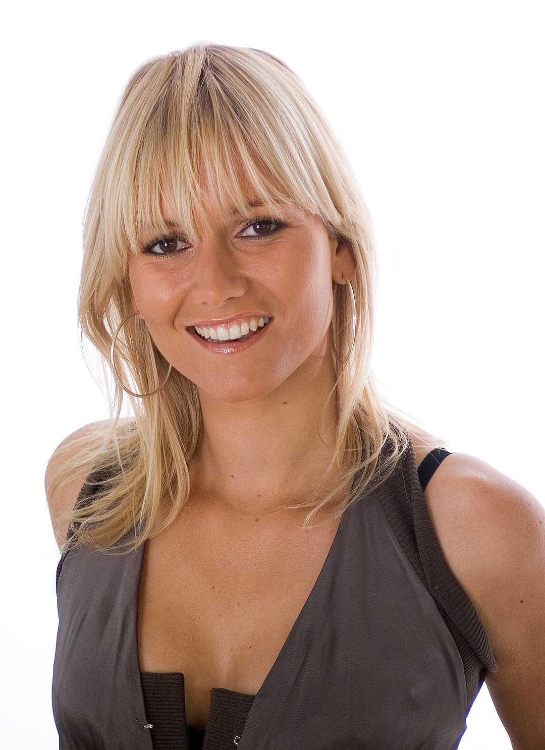 Cynthia Reekmans, a Belgian TV-host.